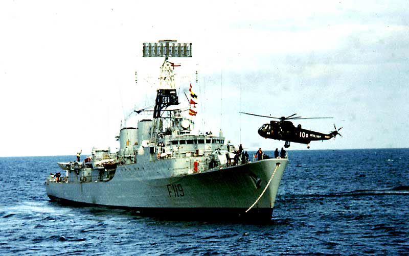 HMS Eskimo. HMS Bacchante preparing to tow HMS Eskimo Sept 75